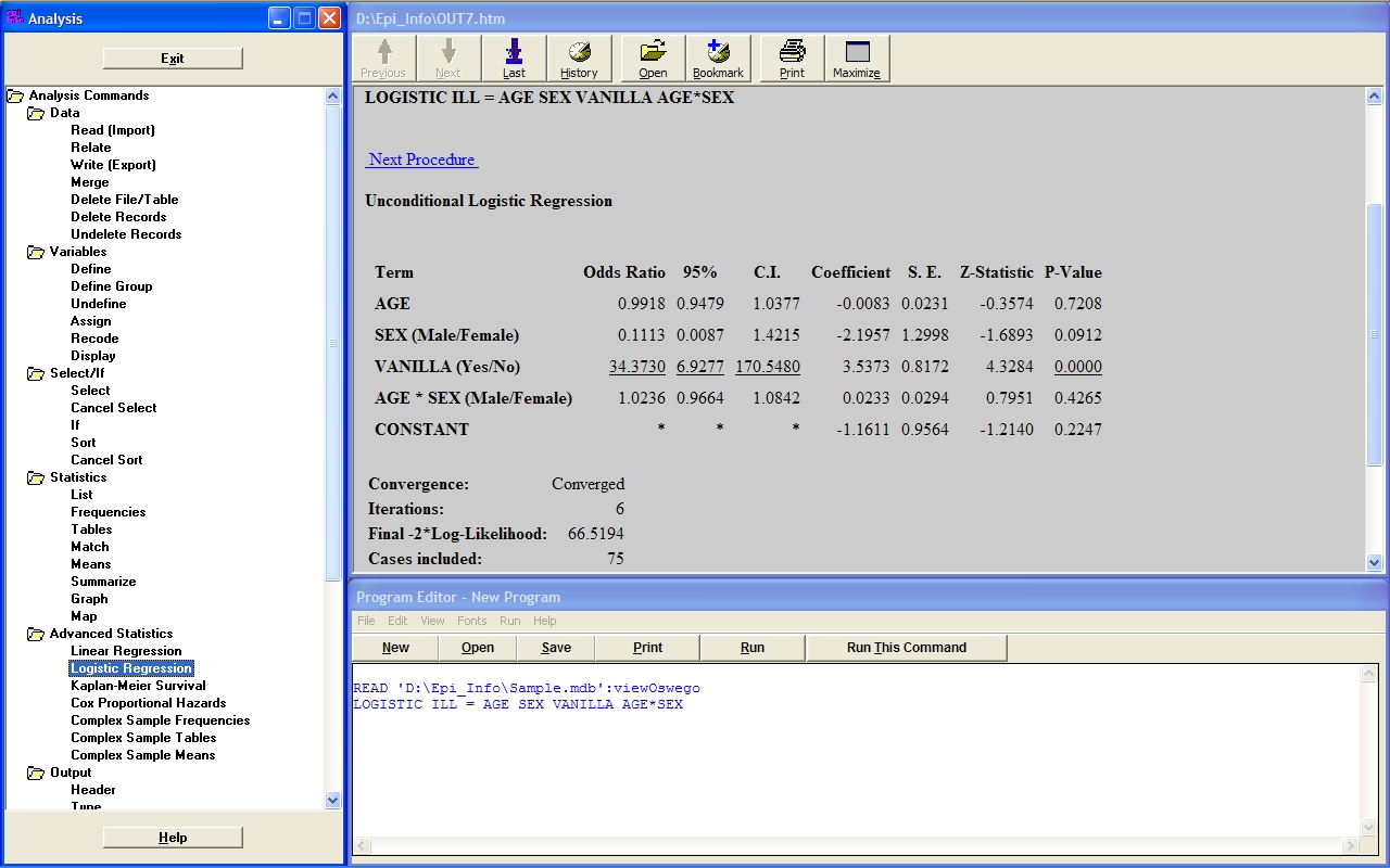 Screen capture of EpiInfo 3.5.3 Analysis module showing the results of an unconditional logistic regression on one of the databases provided as samples with the program